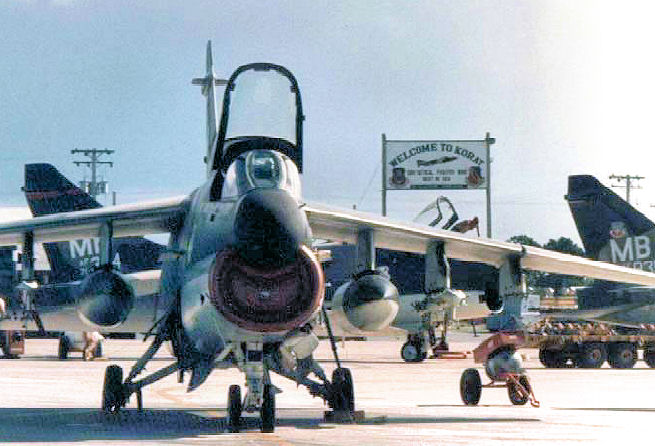 A-7D Corsair IIs of the 354th Tactical Fighter Wing upon arrival at Korat Royal Air Force Base, Thailand from Myrtle Beach AFB, South Carolina, October 1972.